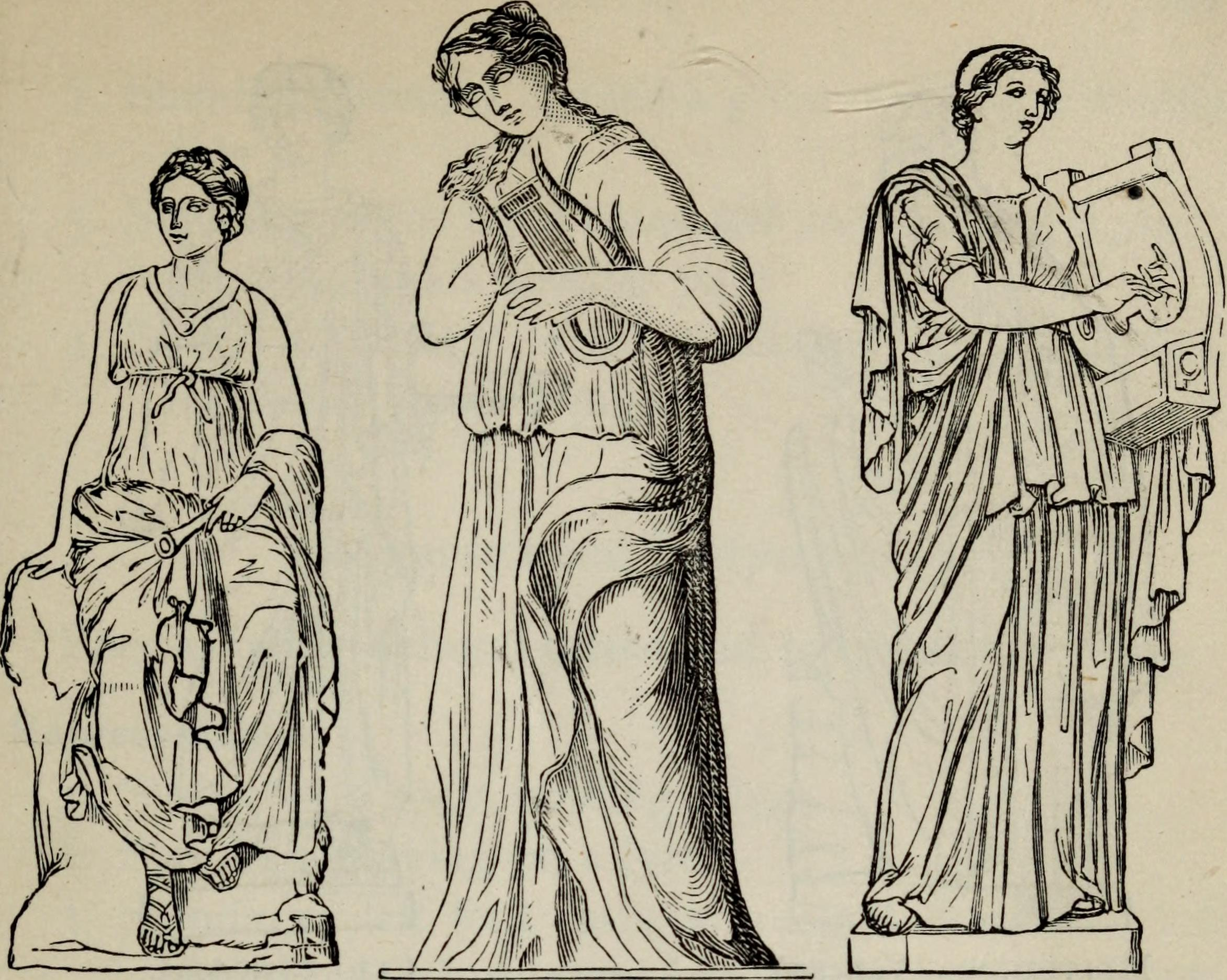 Title: Greek mythology systematized Year: 1880 (1880s) Authors: Scull, Sarah Amelia Subjects: Mythology, Greek Emblems Publisher: Philadelphia : Porter & Coates Text Appearing Before Image: ons and the stars.Human Life : i. To preside over music, song, poetry,and the fine arts.2. To enliven scenes of human joy, to alleviatehuman sorrow.Theog,: i. To join with Apollo in sacred song anddance. 2. To give prophetic inspiration to the priestess at Delphi. 3. To sing at the banquets of the Olympian gods. 4. To sing the praises of the gods. Assoc. Myths. Thamyris received from the Muses the gift of musicalskill, but as he used it in competition with themselves,they deprived him of the gift and punished him withblindness. The Sirens challenged the Muses to a trial of musicalexcellence, and the Muses being victorious, they tookthe plumes of the Sirens and wore them as trophies. The nine daughters of Pierus presumed to enter intoa contest with the Muses for musical supremacy, and,being defeated, they were changed into birds. A. DIVISION. I. Euterpe \Euth^pe\Special oflRce—i, music; 2, lyric poetry.Representation. I. Standing, tresses floating, playing on a double pipeor a flute. Text Appearing After Image: Euterpe (Vatican). Terpischore. Erato (Vatican)